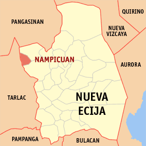 Map of Nueva Ecija showing the location of Nampicuan